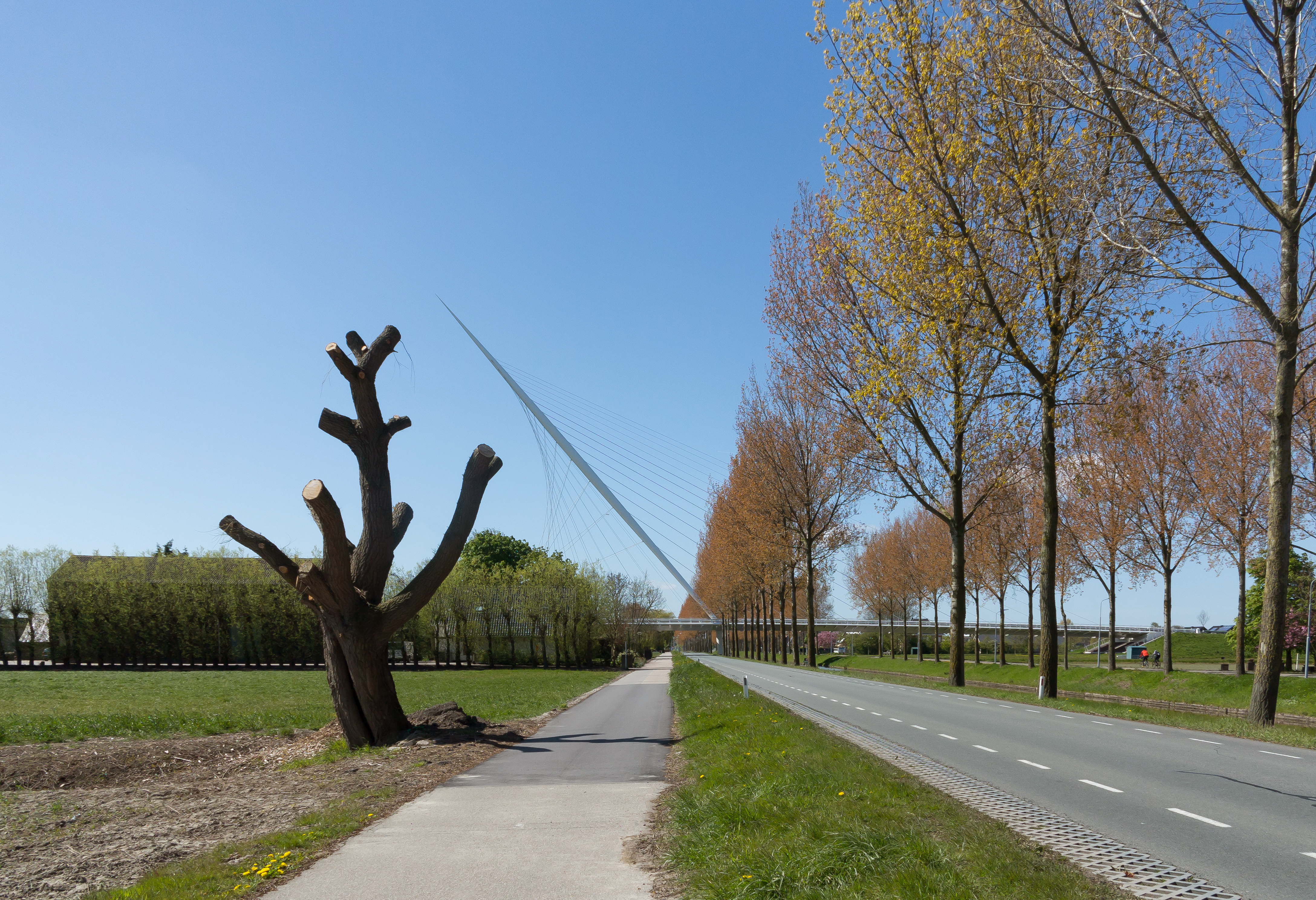 Nieuw-Vennep, Calatrava bridge de Harp